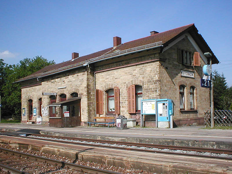 Train station in Sinsheim-Hoffenheim, Germany